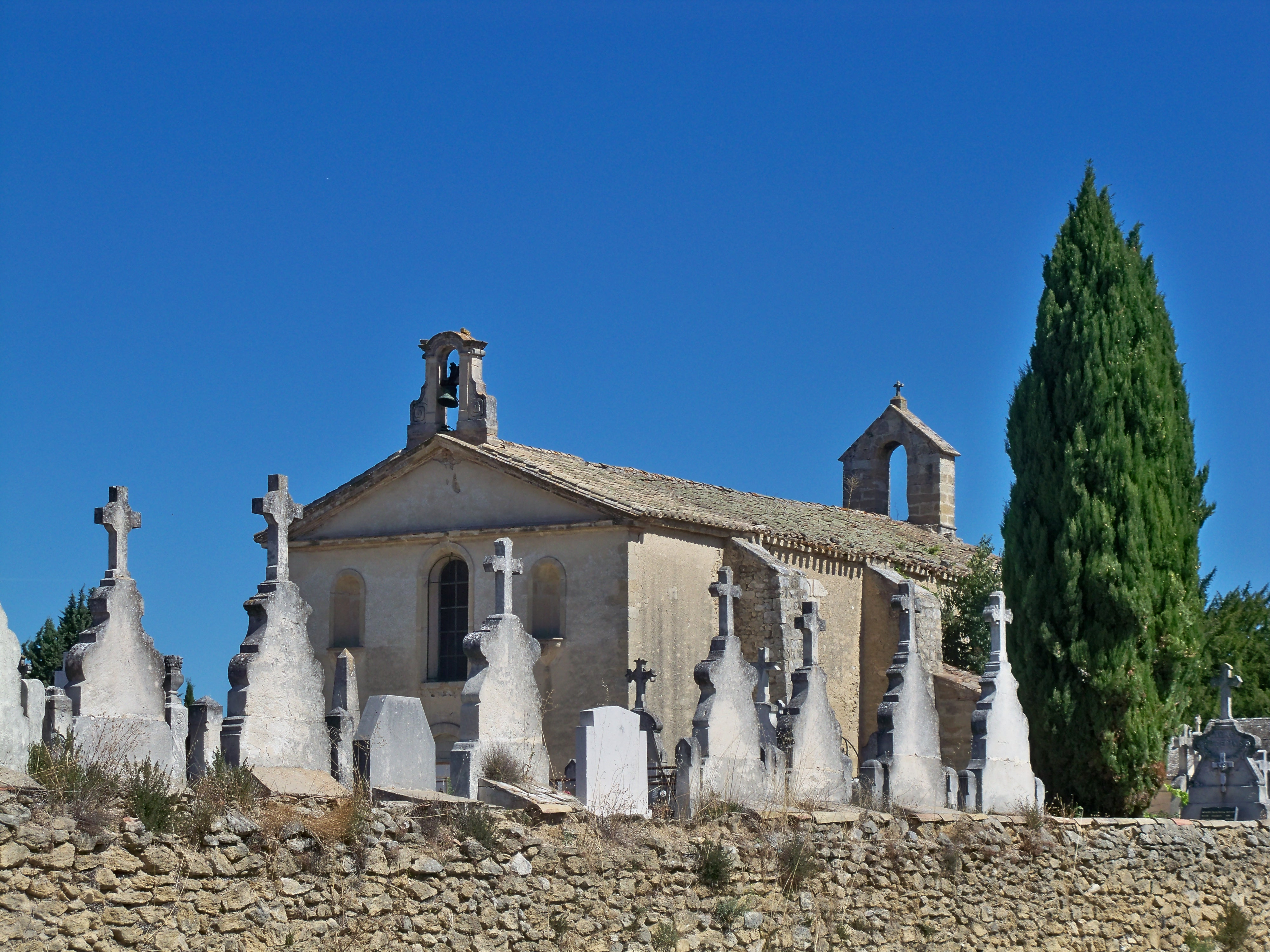 Saint Michel's Chapel, Lambesc, Bouche du Rhône, France